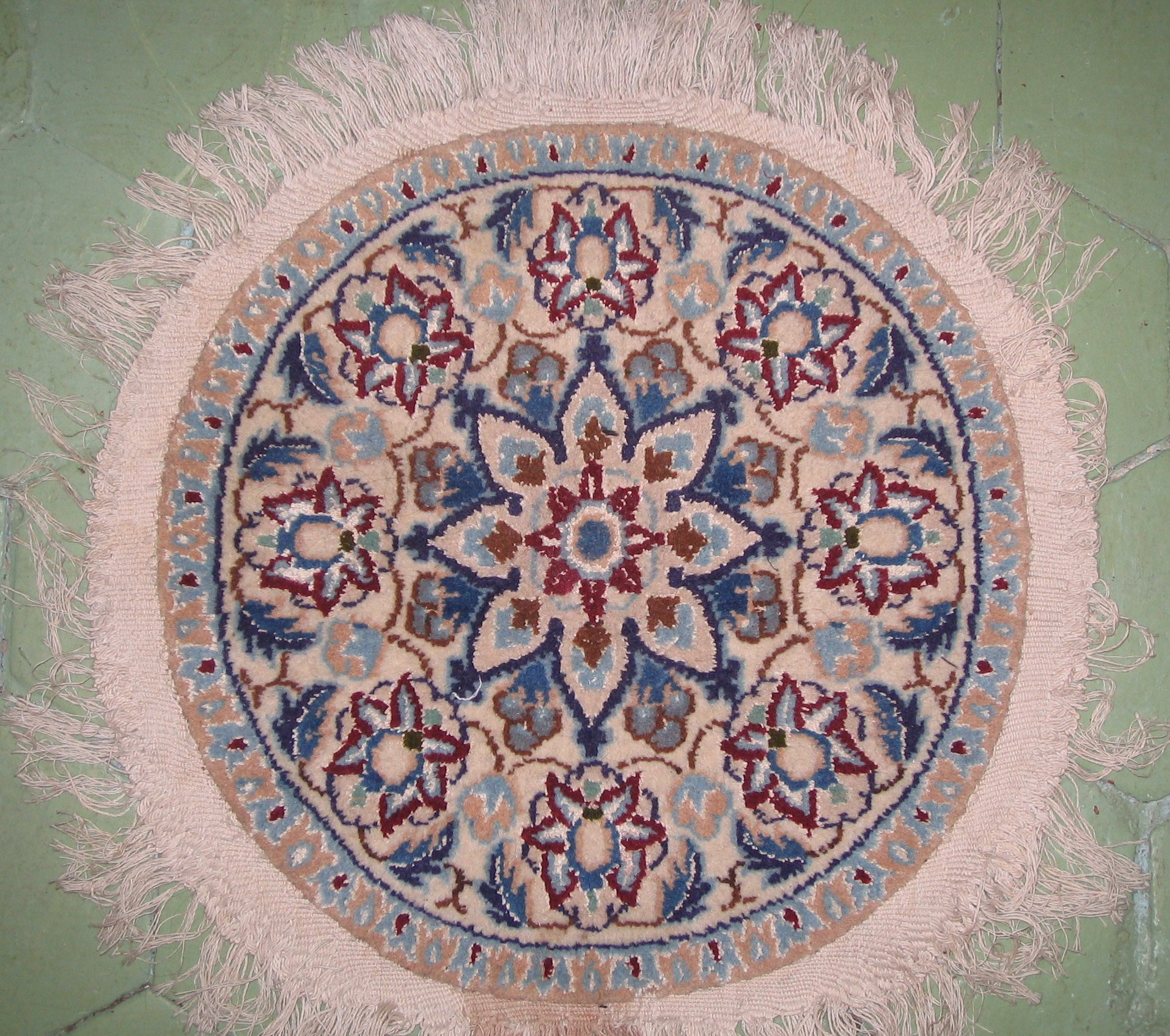 Circular Na'in rug, Iran